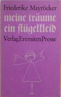 Book cover of Friedericke Mayroecker "meine traume ein flugelkleid" 1974